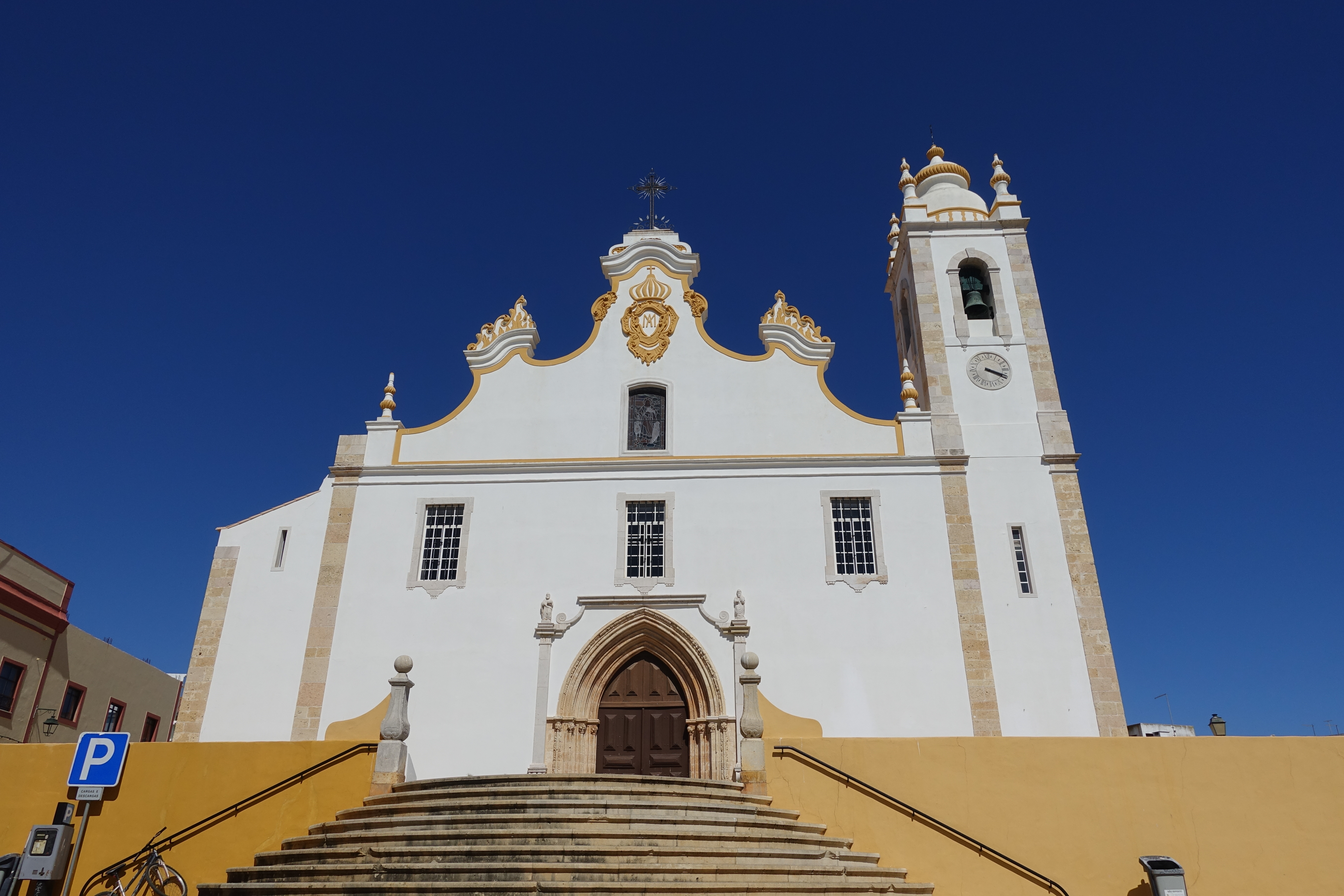 Igreja de Nossa Senhora da Conceição, Portimão, Portugal.